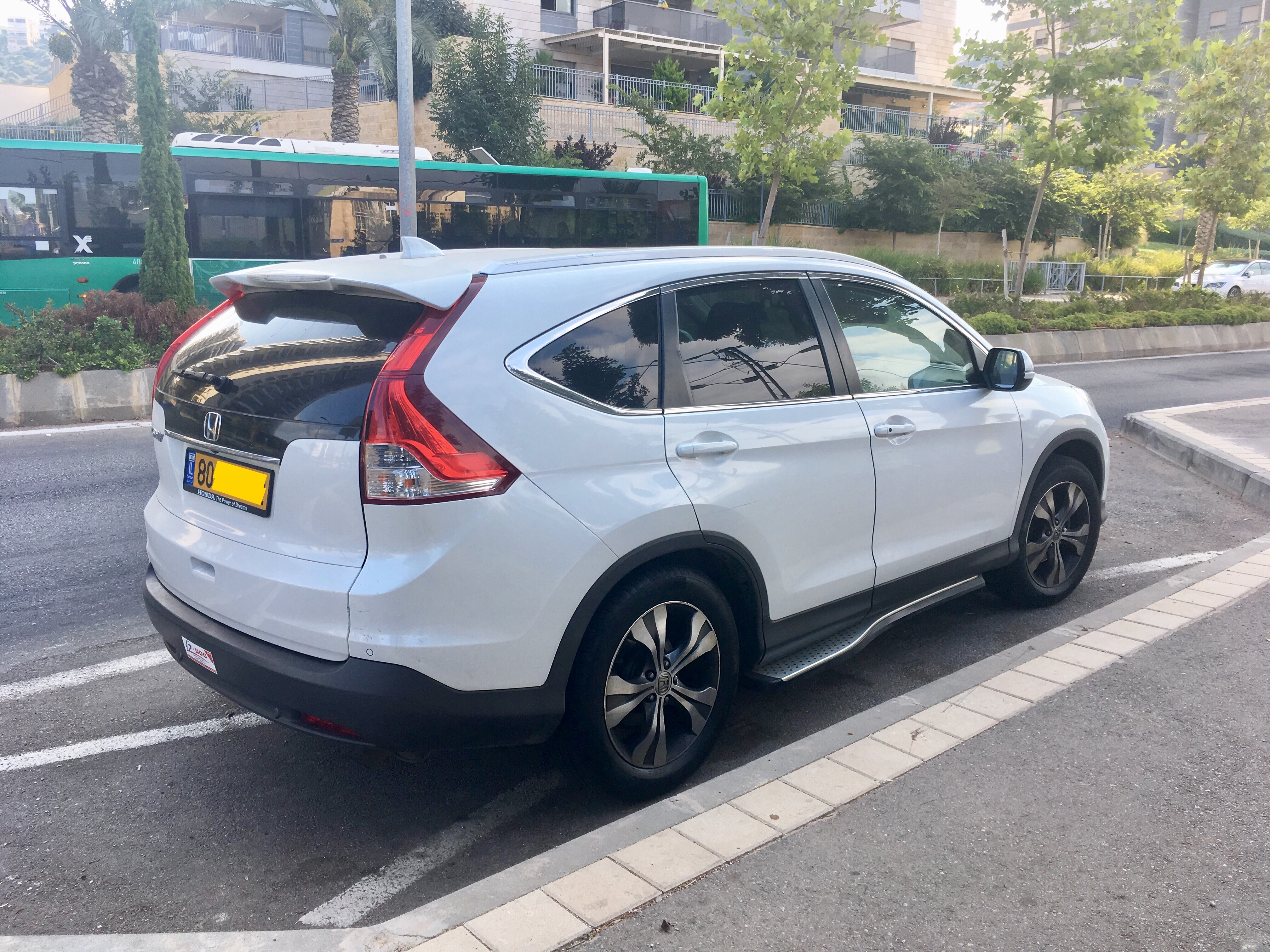 Honda